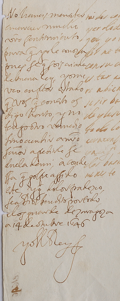 Autograph Letter by King Philip IV of Spain to the Countess of Salavatierra on the margin of the countess' letter of condolence for the death of prince Baltasar Carlos, the king's only male heir, who had four three nights earlier; Zaragoza, October 14 1646